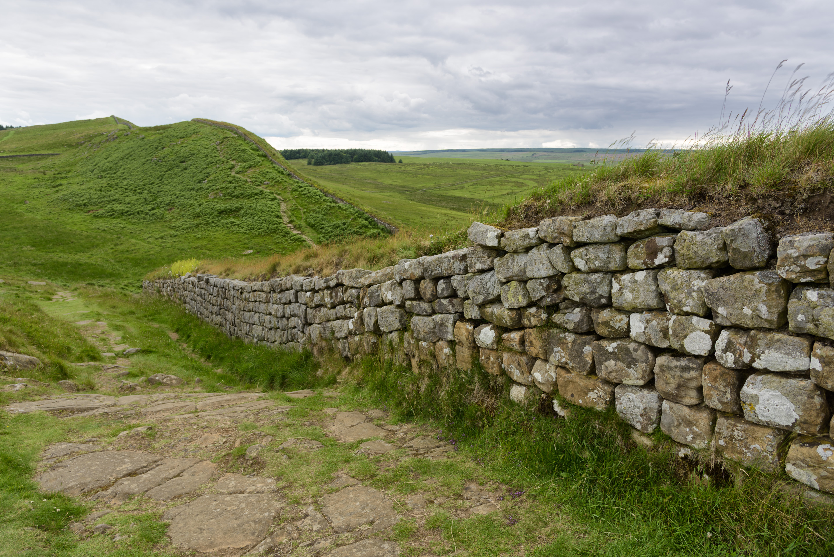 Hadrian's Wall in Northumberland.